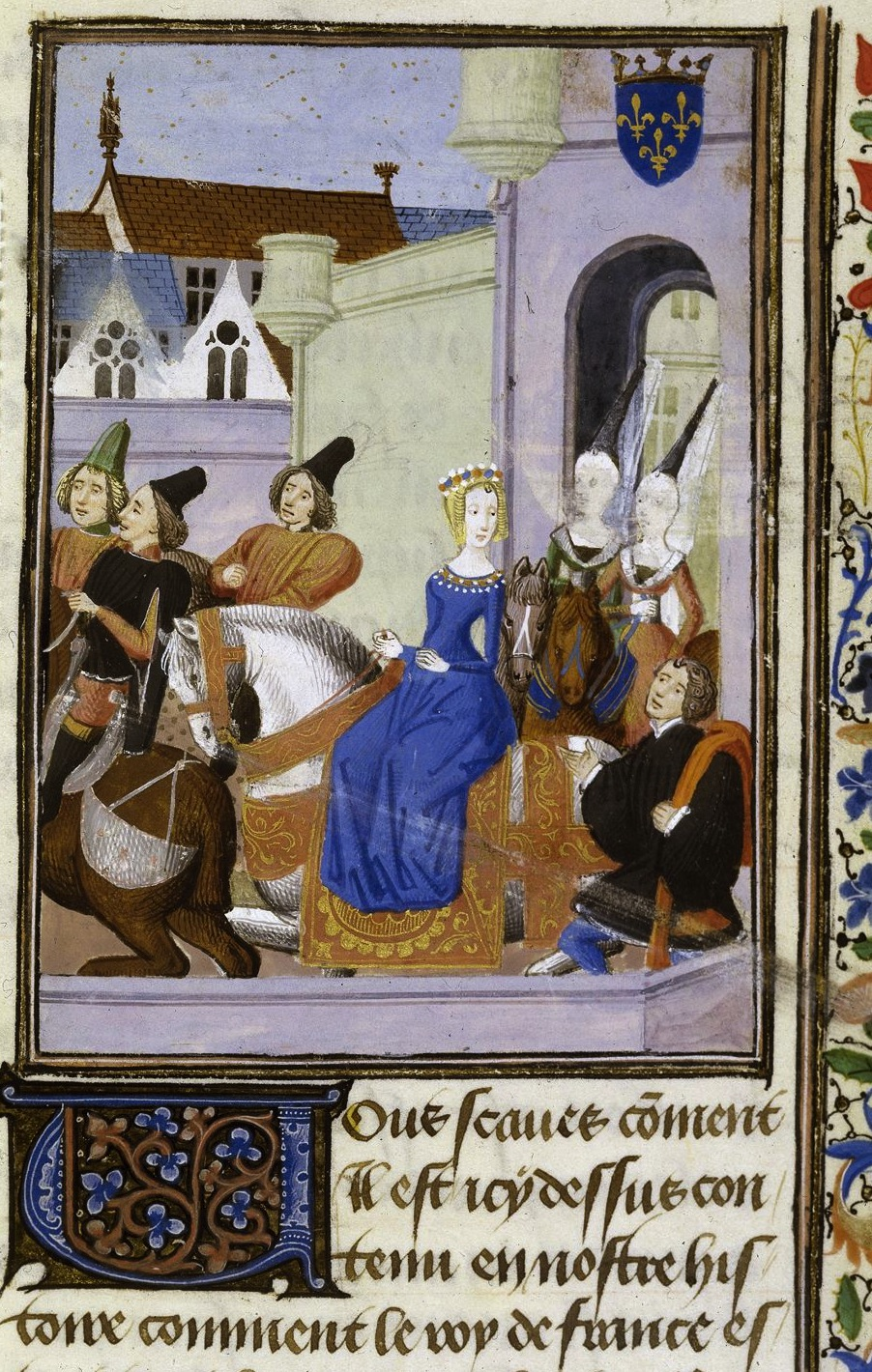 Valentina Visconti leaving Paris. Illuminated miniature from Jean Froissart's Chroniques, BL Harley 4380.